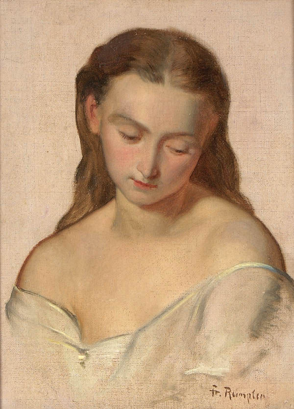 A Young Beauty